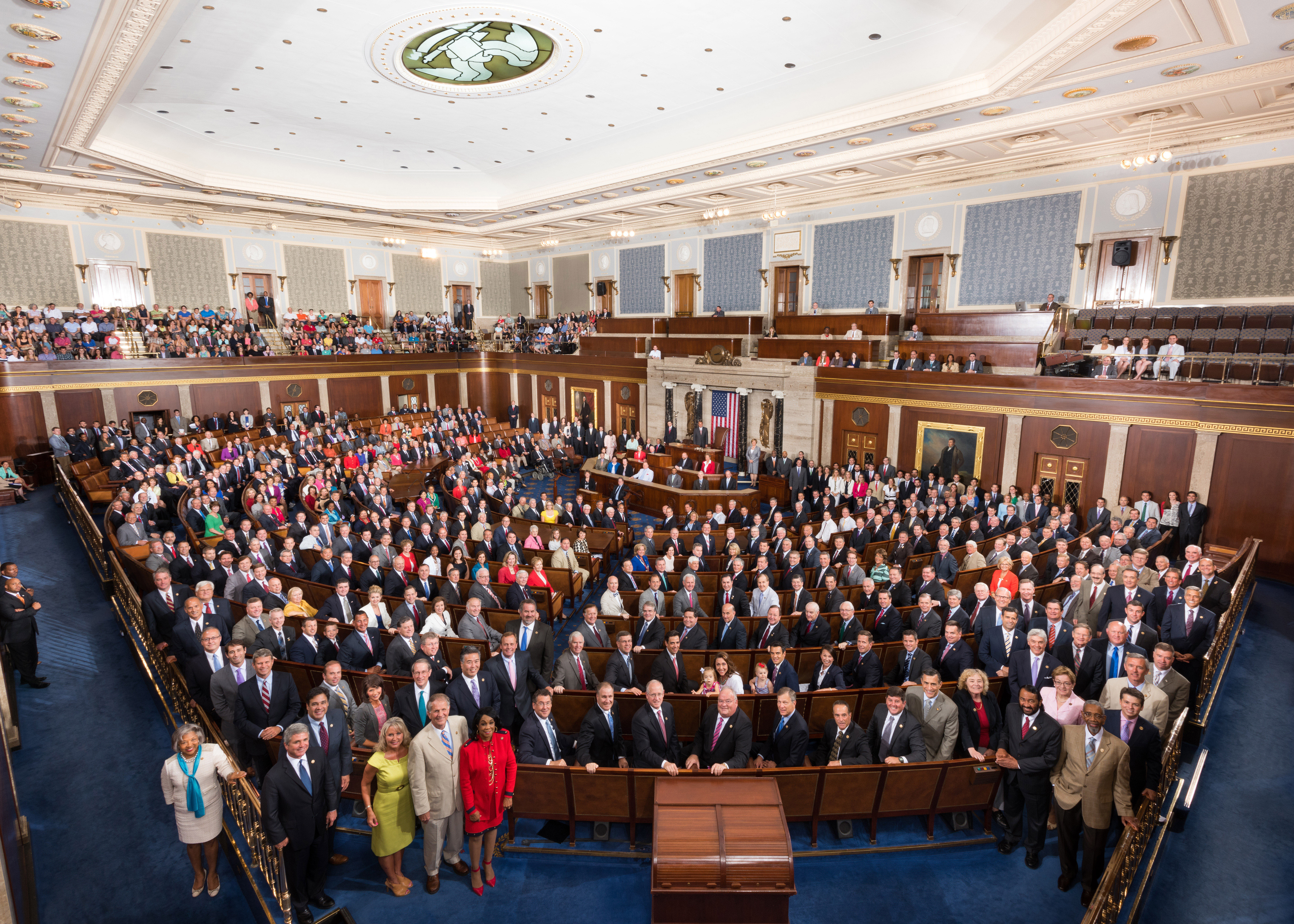 Official photo of the 114th United States Congress